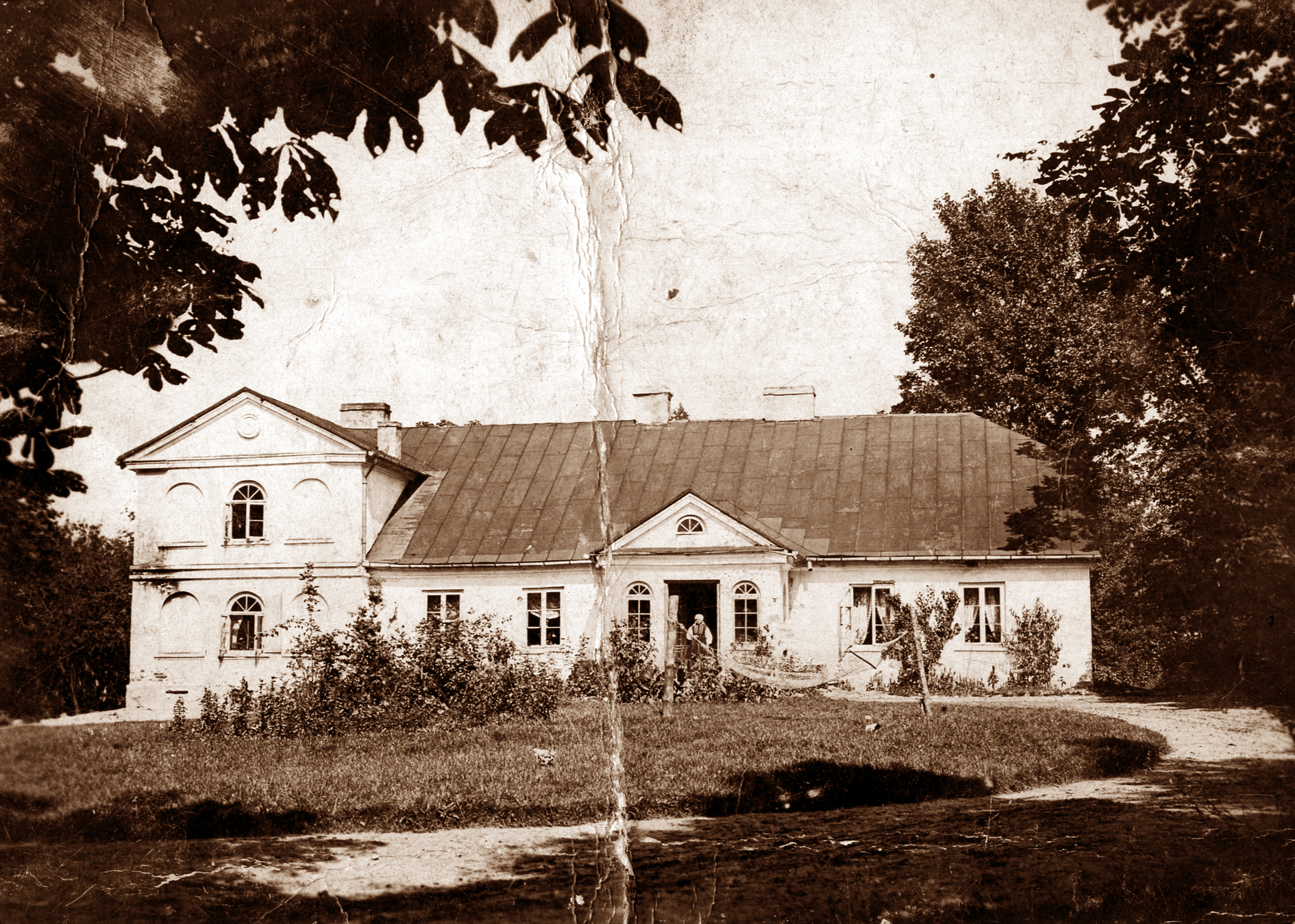 Brzozówka manor house